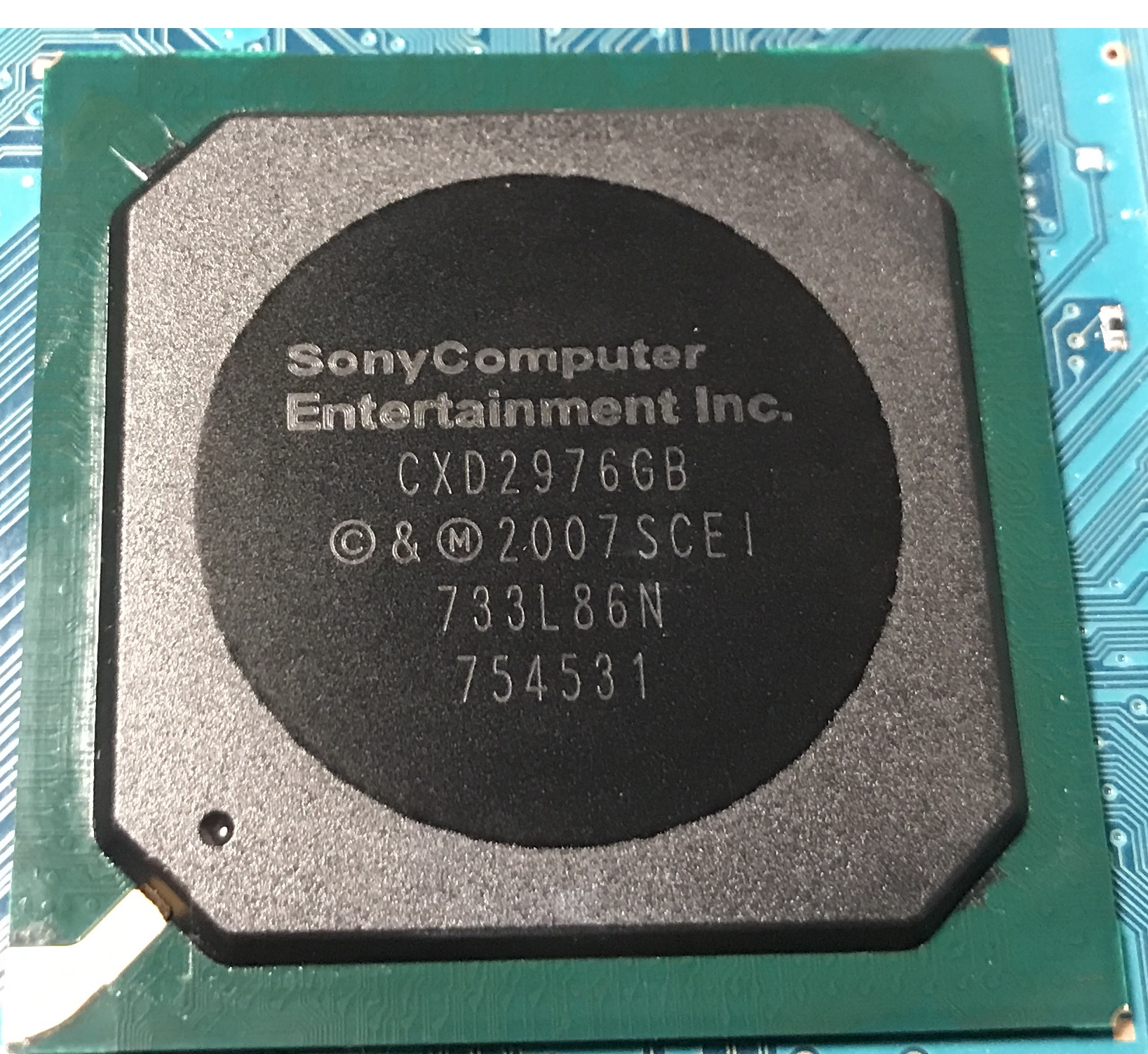 Close up shot of the Playstation 2's EE+GS+RDRAM.